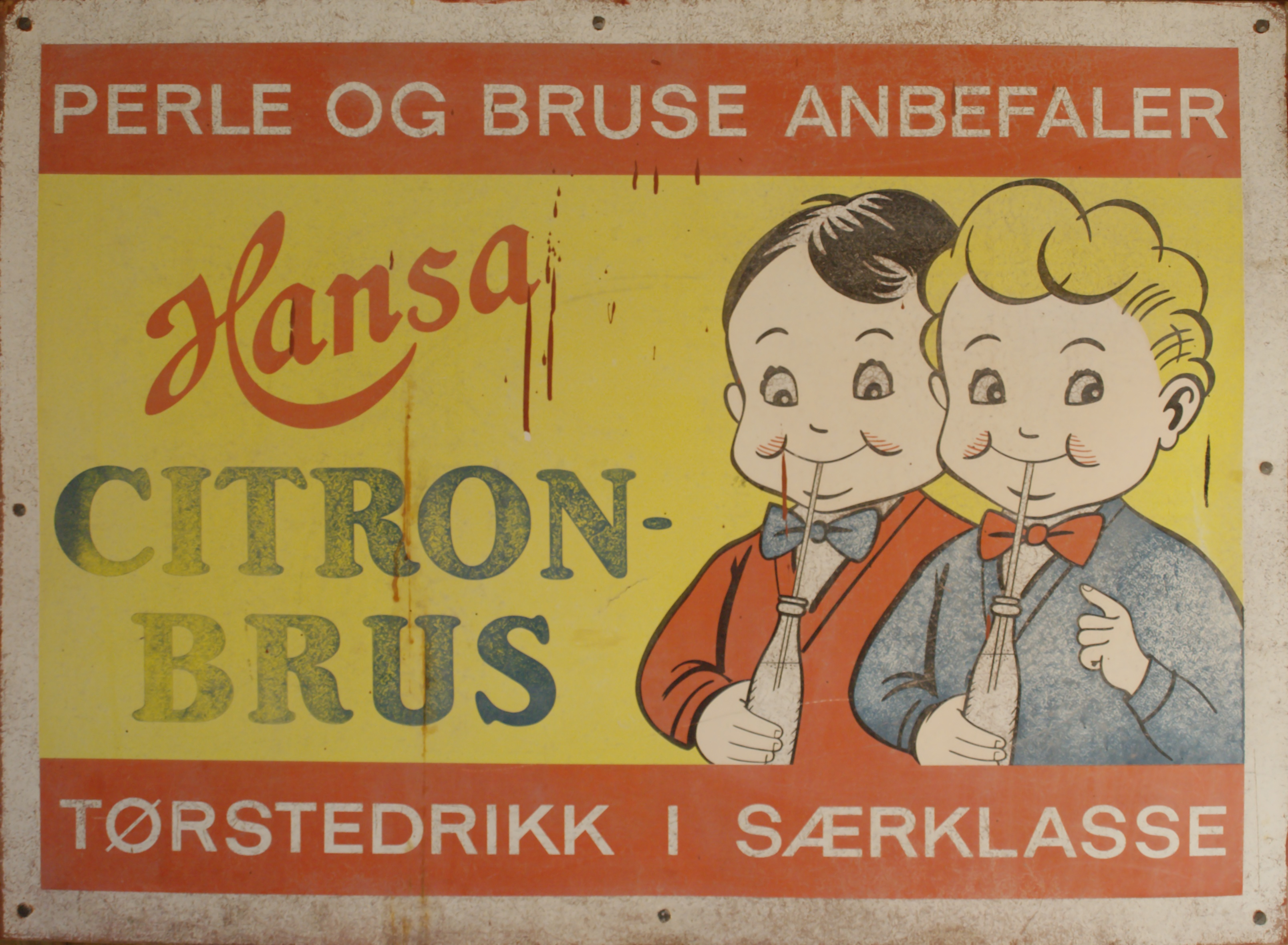 Old brewery advertising sign for Hansa Brewery at Skjerjehamn, Gulen municipality, Norway. Note that the age of the sign itself is unknown.